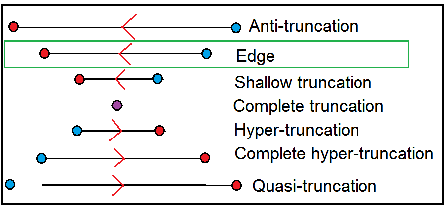 Truncation (geometry)